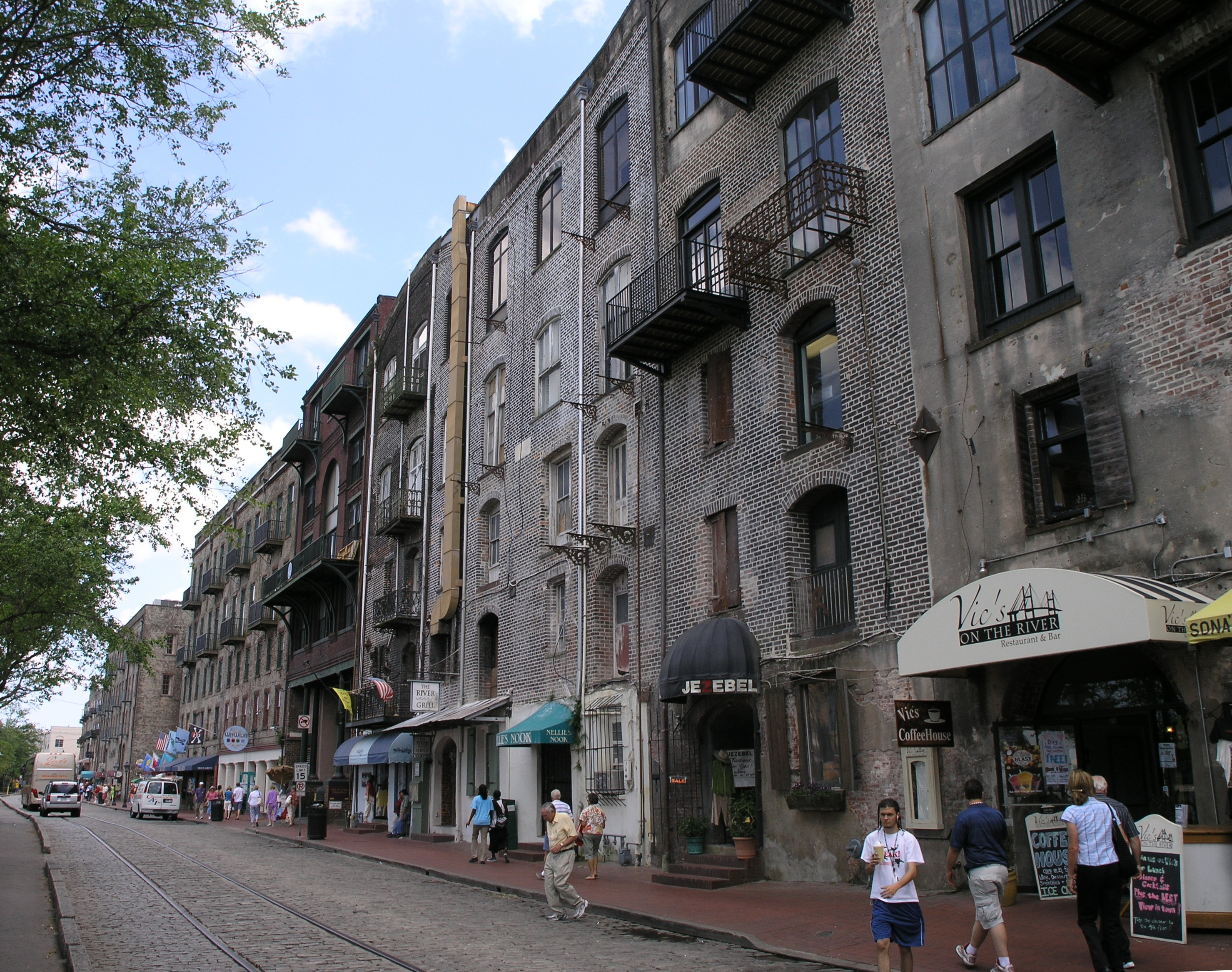 Image of Savannah, Georgia